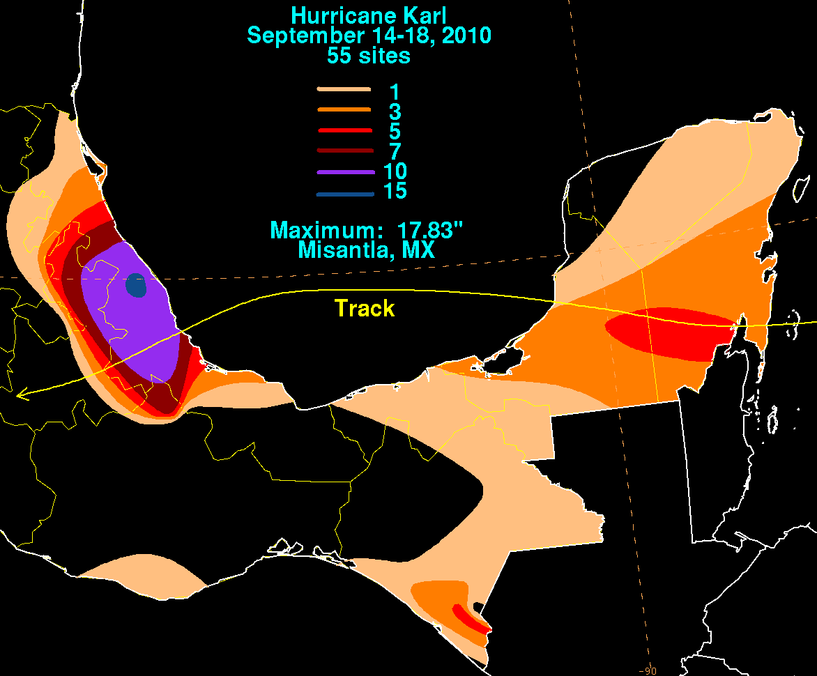 Storm total rainfall map of Hurricane Karl during September 2010.